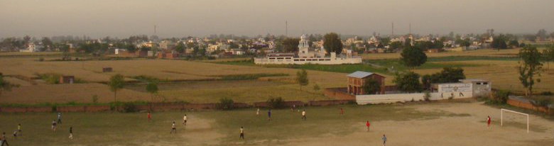 Pind Langroya